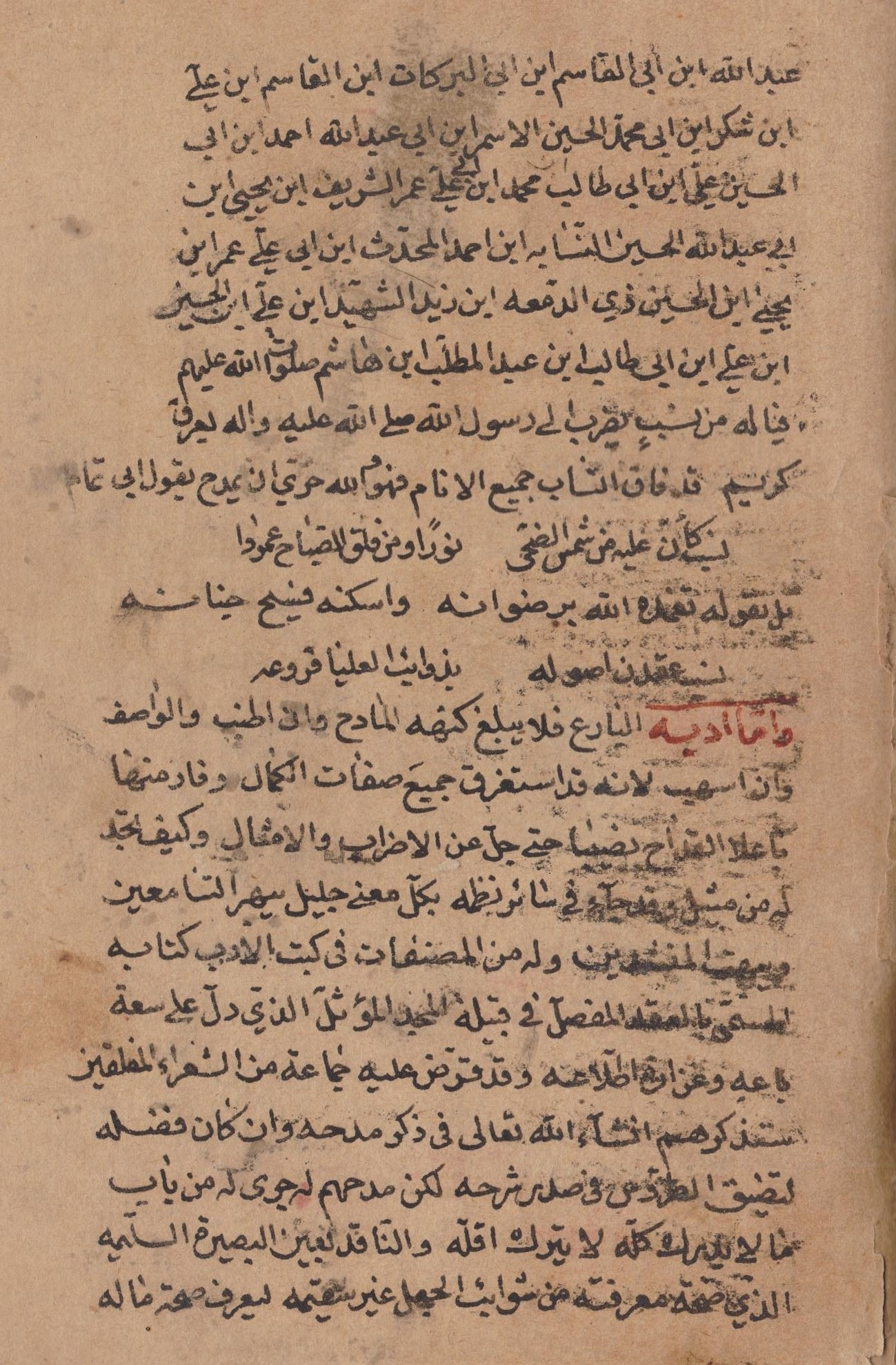 A page of the divan of Haydar al-Hilli by Hassan Musbih al-Hilli